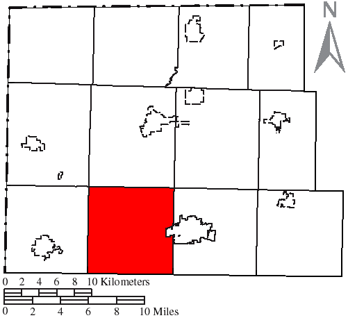 Made by the US Census and modified by myself